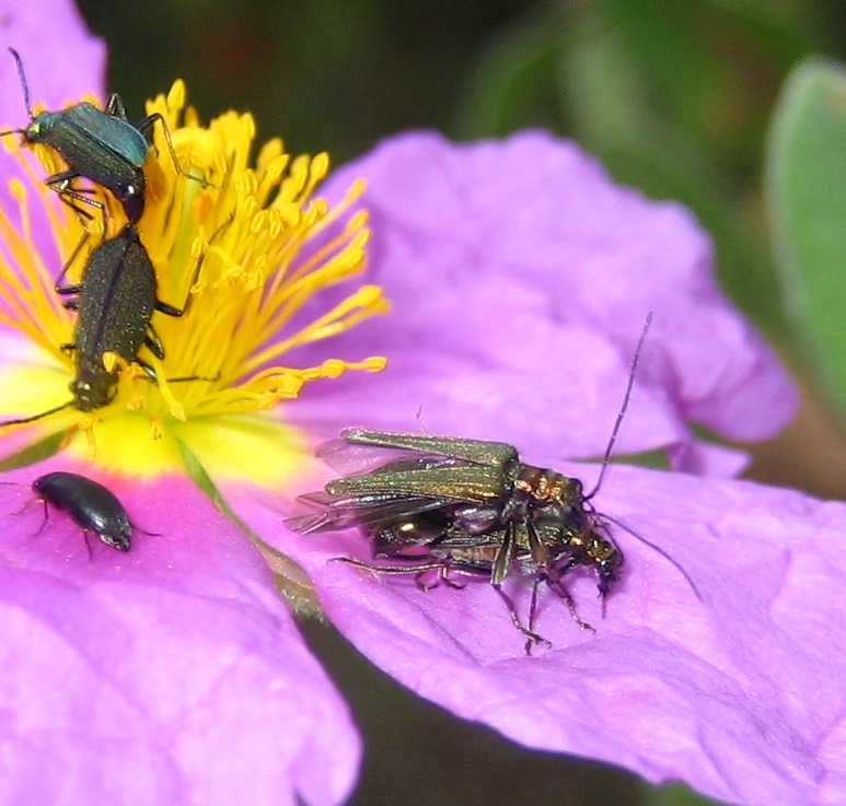 Oedemera flavipes sex (right) (Coleoptera, Oedemeridae) sobre Cistus albidus. Terrassa (Spain)